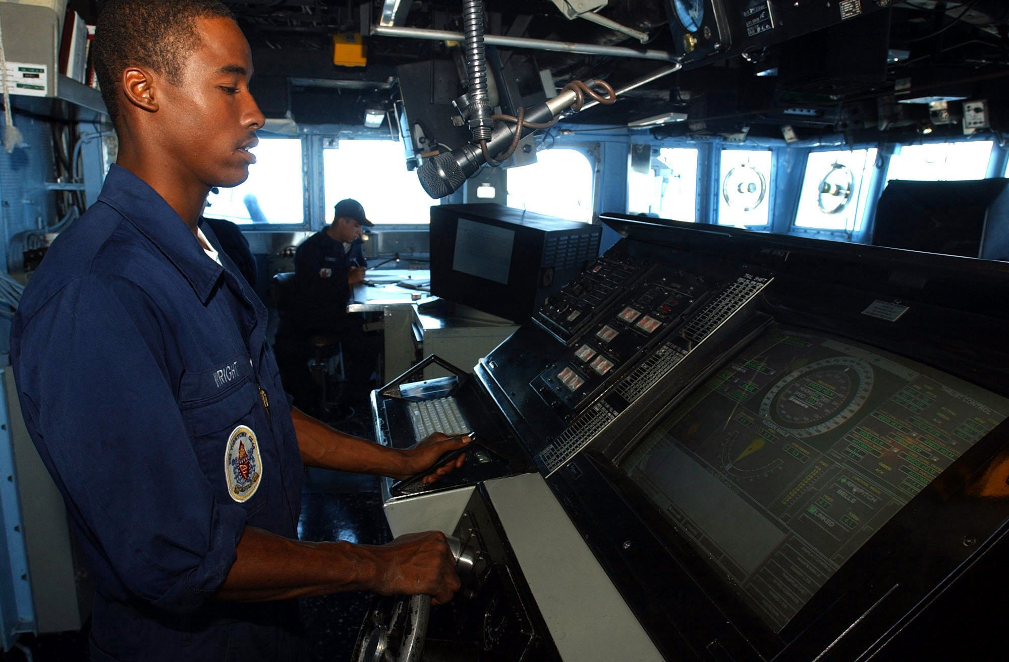 US Navy (USN) Seaman (SN) Recruit, Danny Wright mans the helm onboard the bridge of the Guided Missile Cruiser USS Yorktown (CG 48), during the 43rd annual UNITAS exercises. UNITAS is the largest multi-national naval exercise conducted with naval forces from the Caribbean Sea, South and Central America and the USN. The exercises focus on building multinational coalition while promoting hemispheric defense and mutual cooperation.